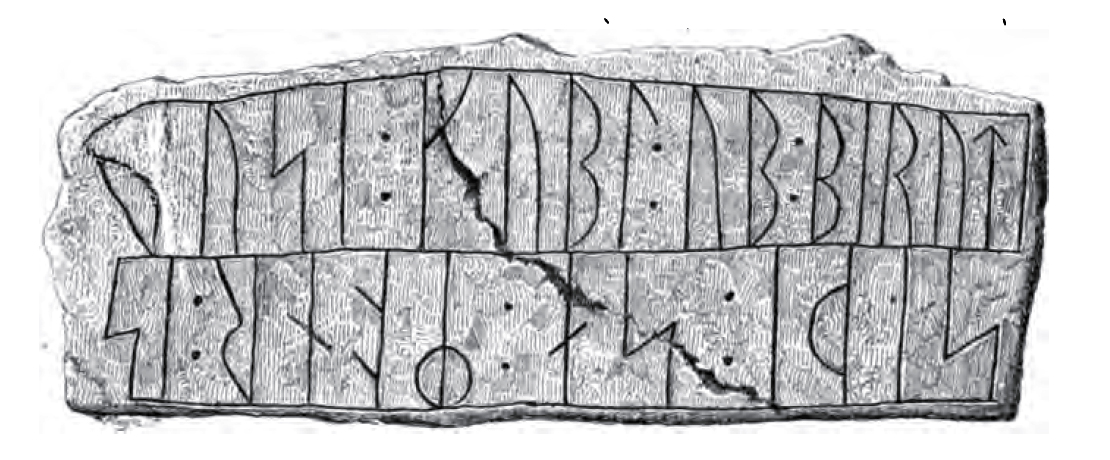 The B-side of the runestone DR 81. George Stephens lists this stone among those which bear the face of Thor. The inscription reads soskiriþr : risþi : stin : finulfs : tutiR : at : uþinkaur : usbiarnaR : sun : þoh : tura : uk : hin : turutin:fasta : siþi : sa : monr : is ¶ : þusi : kubl : ub : biruti. In English "§A Sasgerðr, Finnulfr's daughter, raised the stone, in memory of Óðinkárr Ásbjôrn's son, the valued and loyal to his lord. §B A sorcerer (be) the man who breaks this monument!"